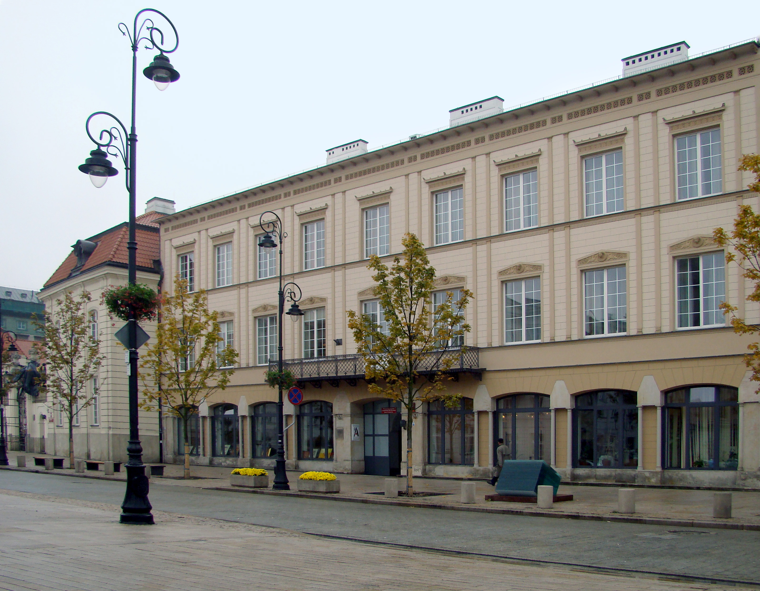 Krakowskie Przedmieście St. 17, Warsaw